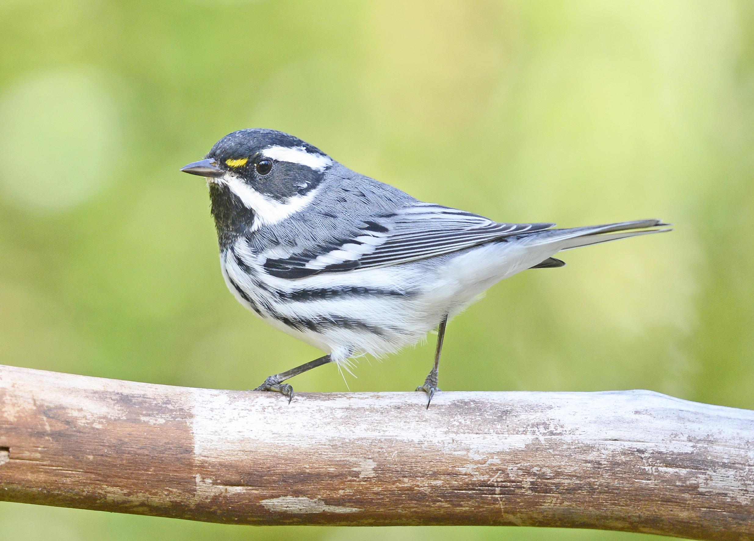 Black-throated Gray Warbler (Setophaga nigrescens), male, western Washington State